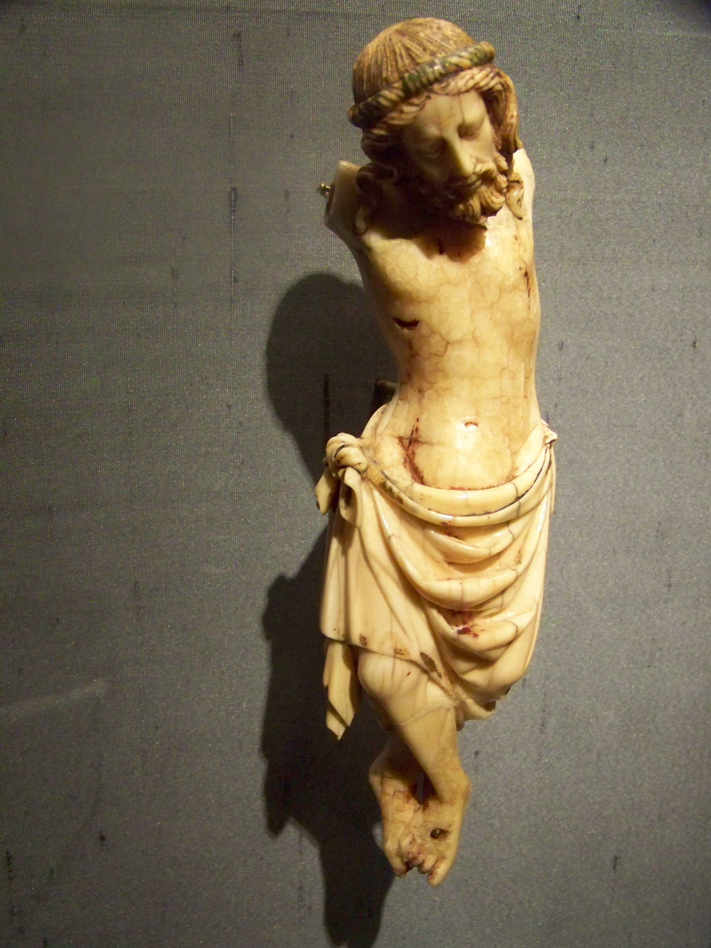 French artist working in northern Europe The Crucified Christ, ca. 1300 Northern Europe Walrus ivory with traces of paint and gilding; Overall: 7 9/16 x 2 1/16 x 1 3/8 in. (19.2 x 5.3 x 3.5 cm) The Metropolitan Museum of Art, New York, The Cloisters Collection, 2005 (2005.274) View at the Metropolitan Museum of Art website Wikipedia Loves Art at the Metropolitan Museum of Art This photo of item # 2005.274 at the Metropolitan Museum of Art was contributed under the team name "Opal_Art_Seekers_4" as part of the Wikipedia Loves Art project in February 2009. Metropolitan Museum of Art The original photograph on Flickr was taken by KaDeWeGirl—please add a comment to the original Flickr page whenever a use has been made on Wikipedia or another project. Project galleries on Flickr: this institution, this team